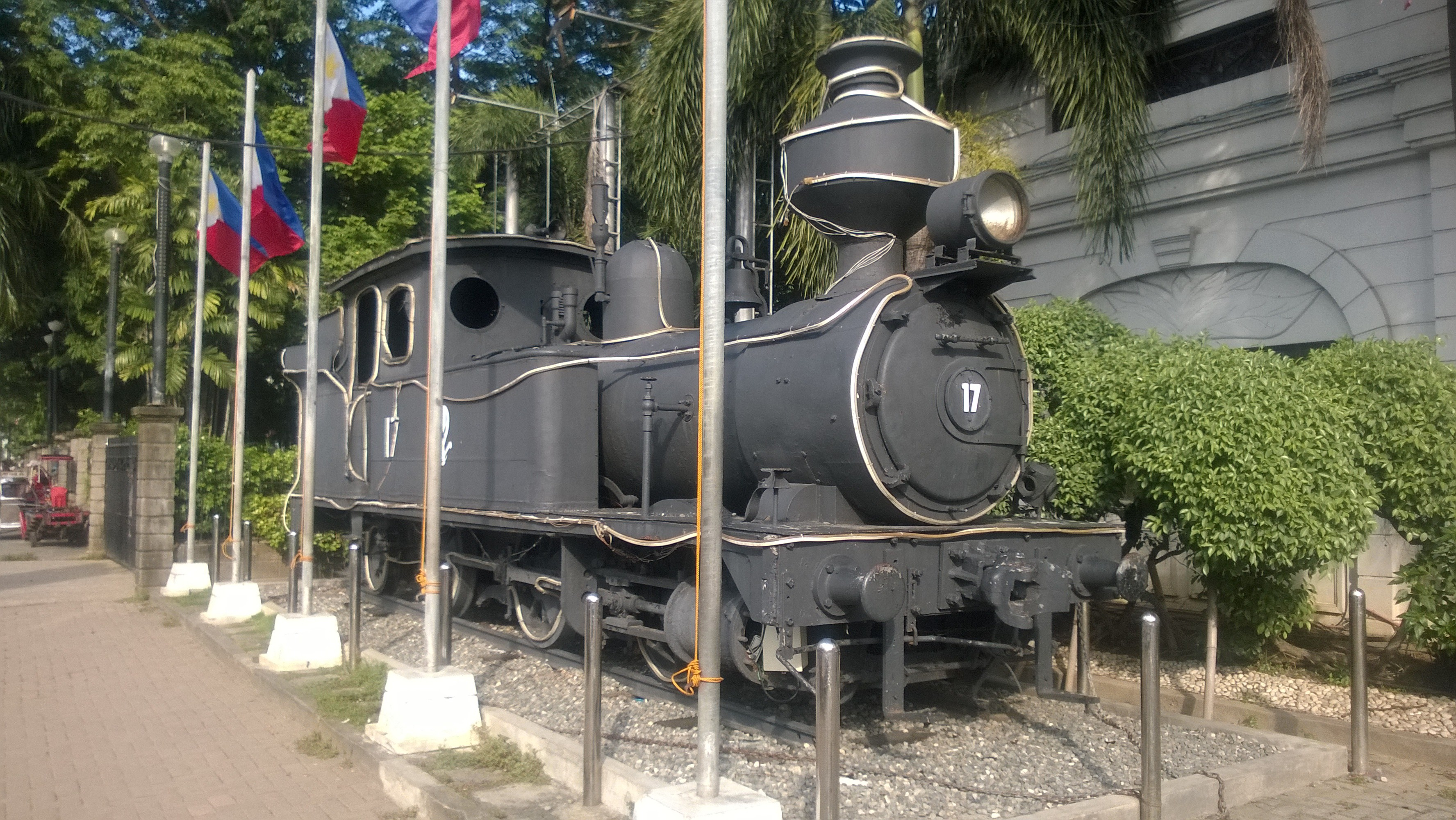 Philippine National Railway Locomotive #17 on display at the Dagupan City Museum